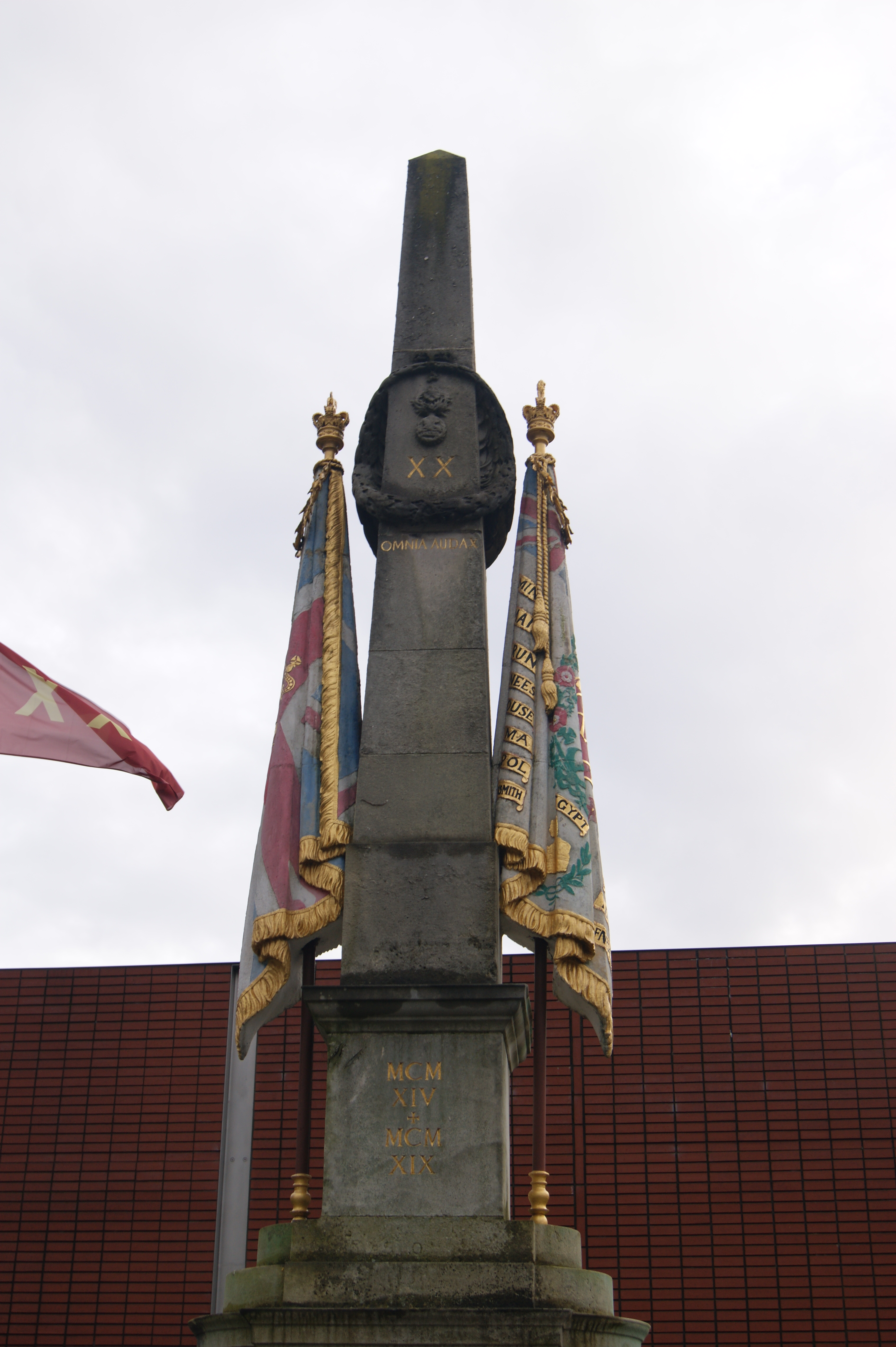 The making of this file was supported by Wikimedia UK. The Lancashire Fusiliers War Memorial, now situated in Gallipoli Gardens, outside the Fusilier Museum, in Bury, Greater Manchester (formerly in Lancashire), England.